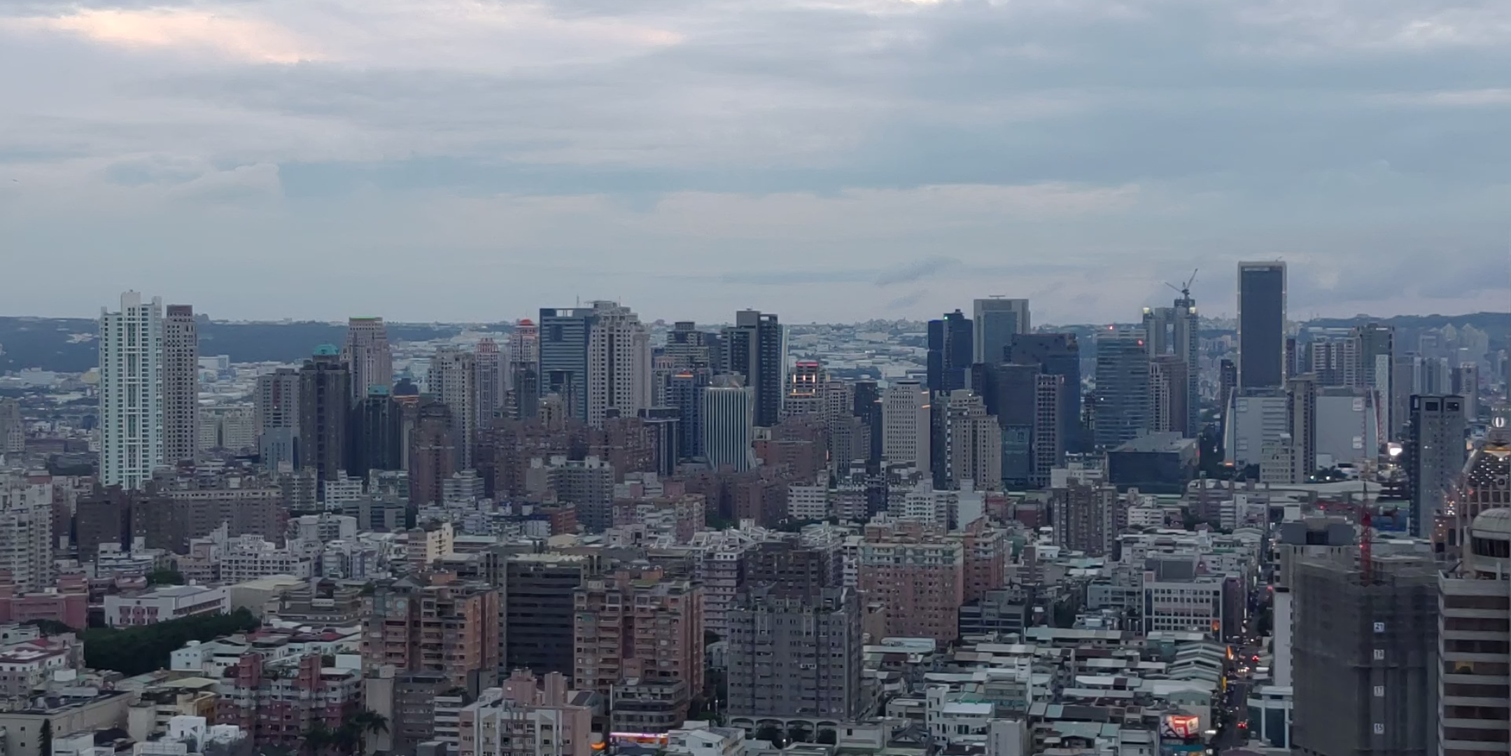 Skyline of Taichung 7th Redevelopment Zone